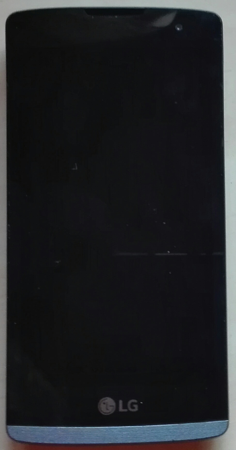 LG Leon 4G smartphone front